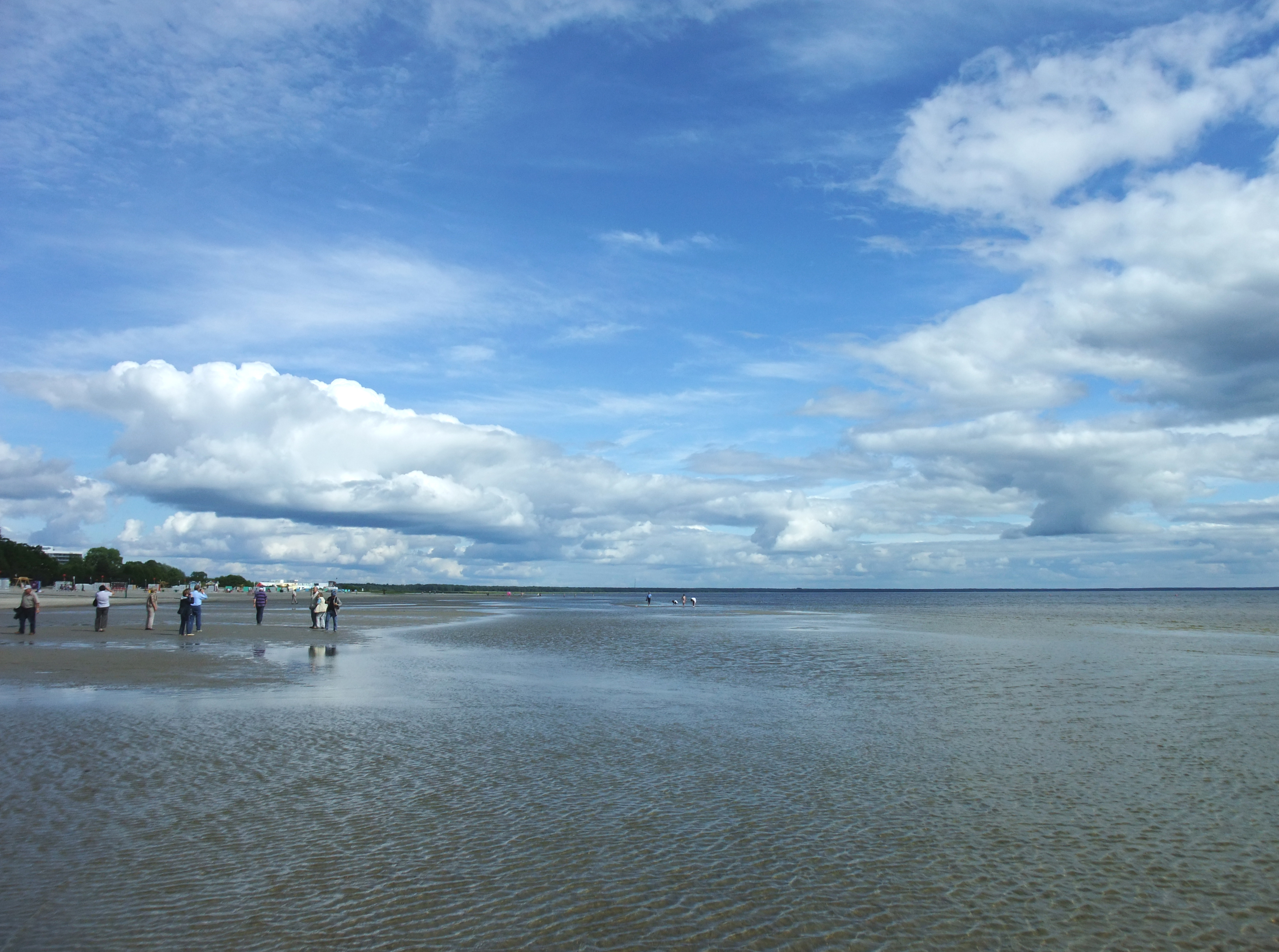 Pärnu Beach in Estonia